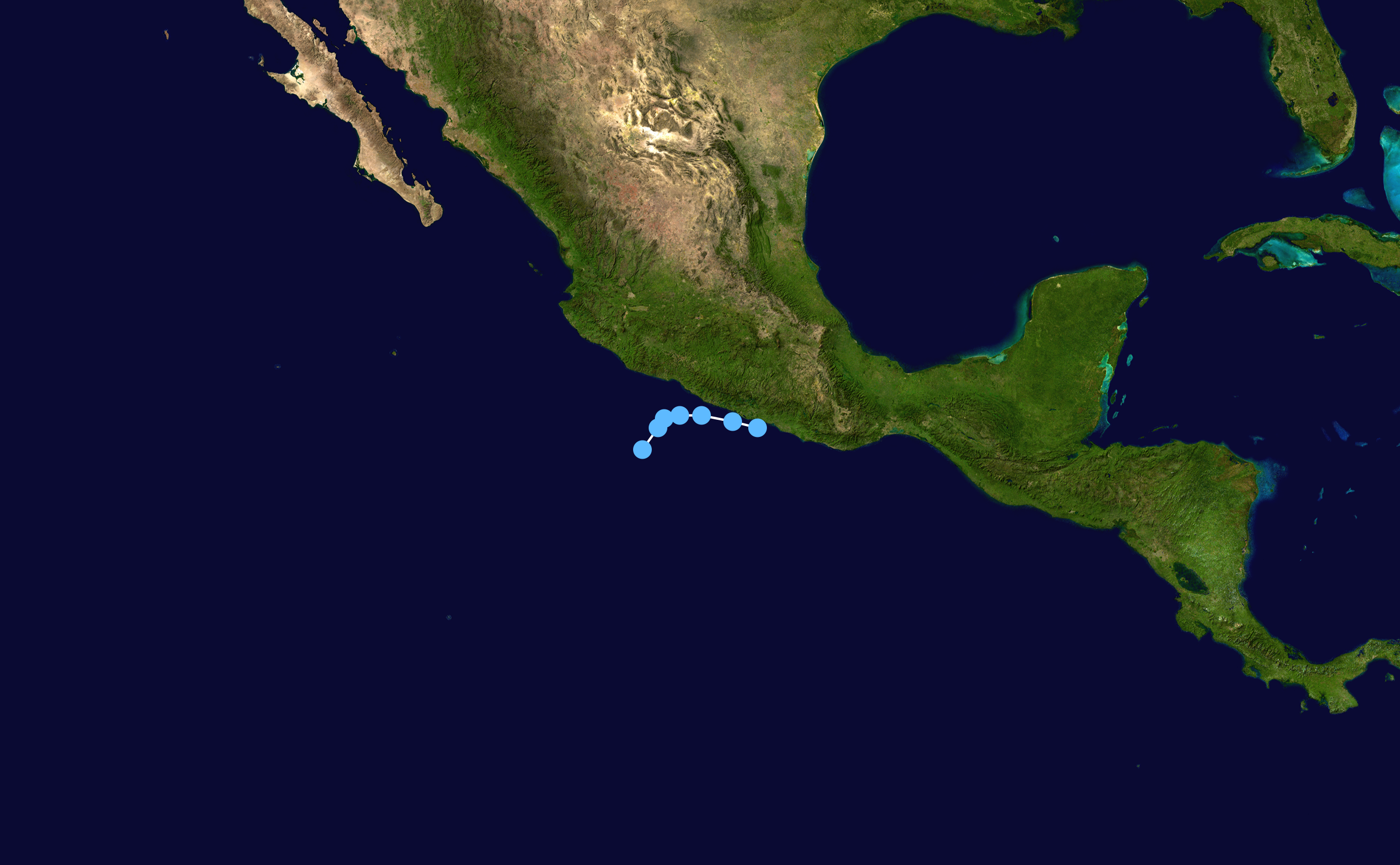 Track map of Tropical Depression Two-E of the 2006 Pacific hurricane season. The points show the location of the storm at 6-hour intervals. The colour represents the storm's maximum sustained wind speeds as classified in the Saffir–Simpson scale (see below), and the shape of the data points represent the nature of the storm, according to the legend below. Saffir–Simpson scale Tropical depression≤38 mph≤62 km/h Category 3111–129 mph178–208 km/h Tropical storm39–73 mph63–118 km/h Category 4130–156 mph209–251 km/h Category 174–95 mph119–153 km/h Category 5≥157 mph≥252 km/h Category 296–110 mph154–177 km/h Unknown Storm type Tropical cyclone Subtropical cyclone Extratropical cyclone / Remnant low / Tropical disturbance / Monsoon depression